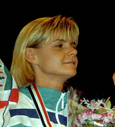 Anja Fichtel, former fencer from Germany